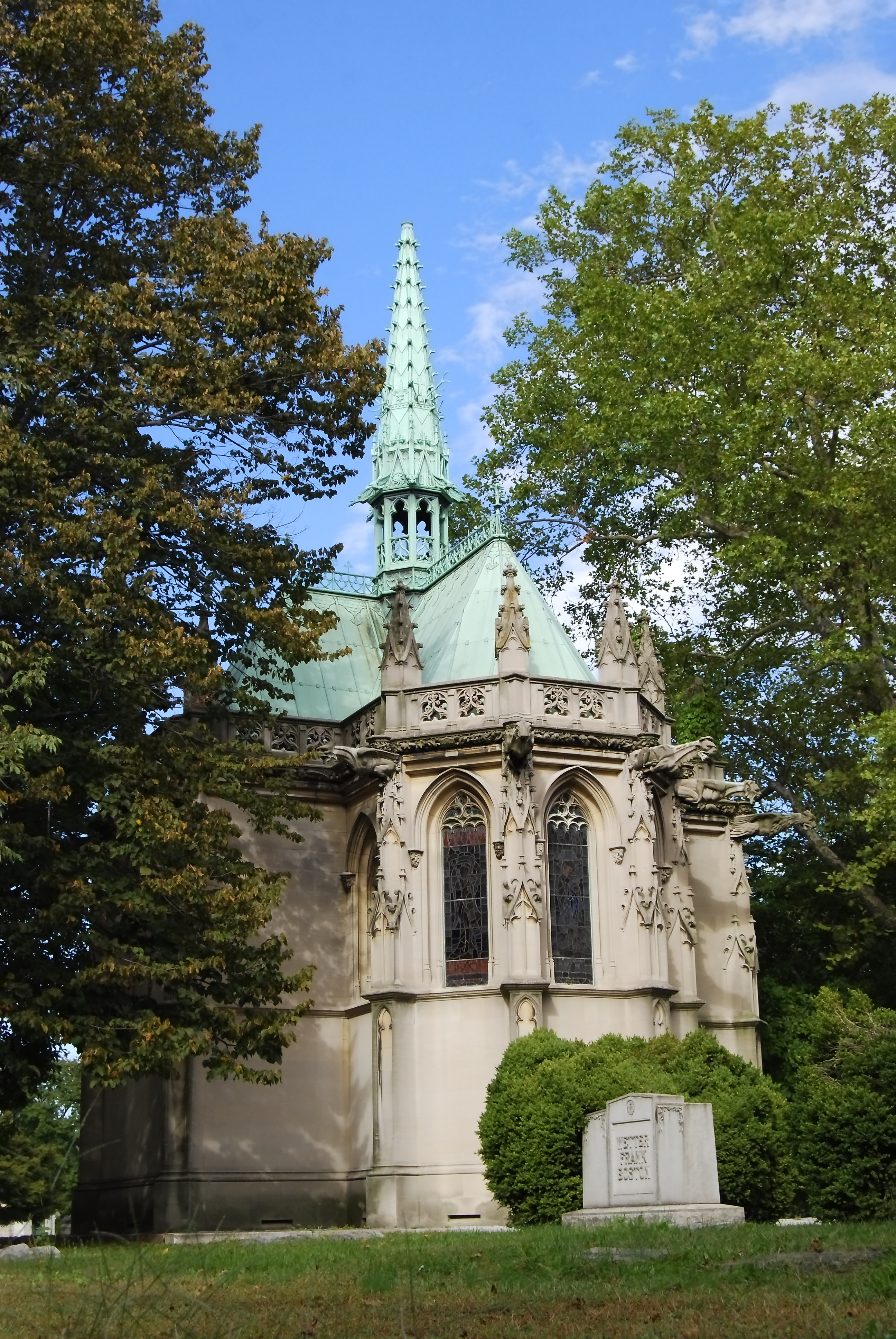 An exact replica of The Chapel of Saint Hubert at Chateau Amboise in France, which was designed by Leonardo DaVinci